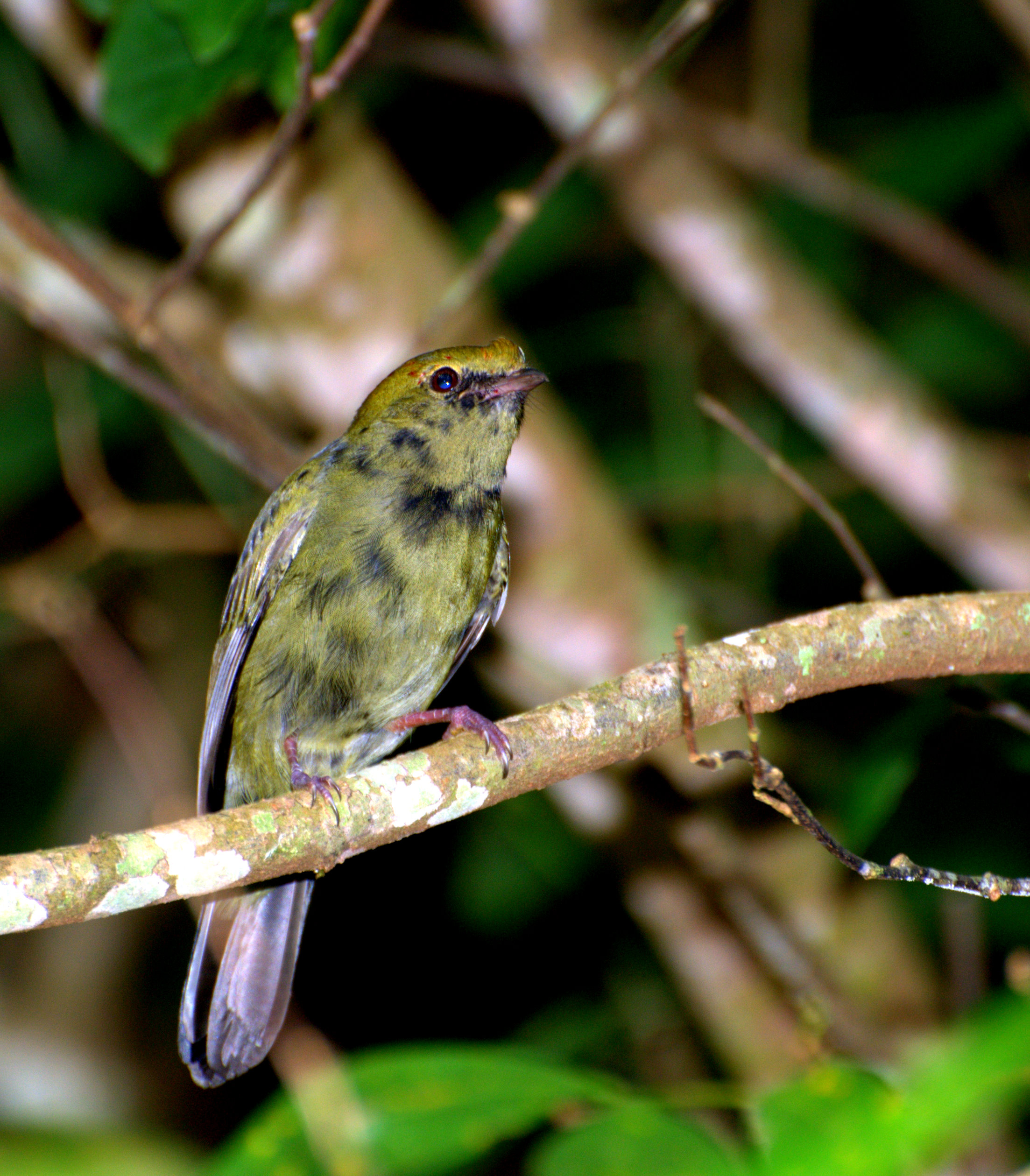 A female Helmeted Manakin in Reserva Ambiental, Piraju, Sao Paulo, Brazil.